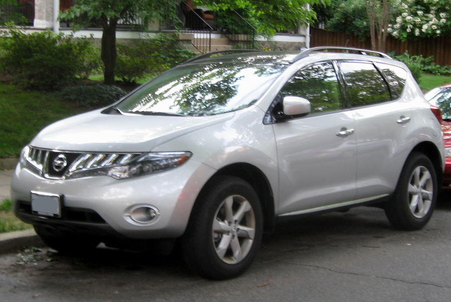 2009 Nissan Murano photographed in Washington, D.C., USA.